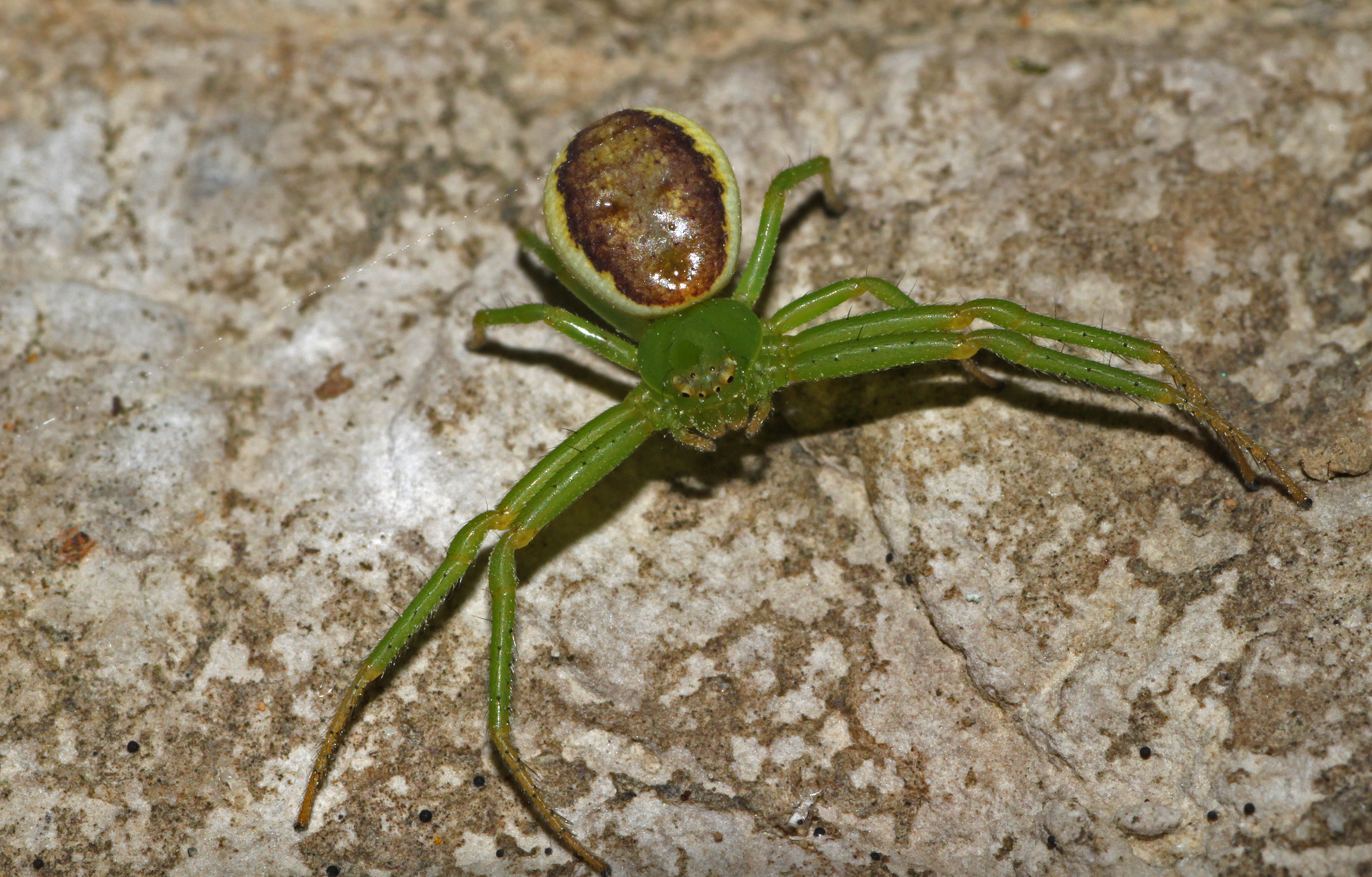 Green Crab Spider, Diaea dorsata, Family: Thomisidae, Location: Germany, Oberstdorf